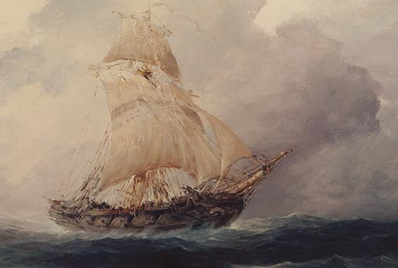 This image is a work of a sailor or employee of the U.S. Navy, taken or made during the course of the person's official duties. As a work of the U.S. federal government, the image is in the public domain. - Photo #: KN-4784 (Color) Continental Gondola Boston (1776) Painting by Rod Claudius, Rome, Italy, 1962. This artwork was made for display on board USS Boston (CAG-1). Photographed by PHCS G.R. Phelps, Boston Naval Shipyard, 10 April 1963. This is a quite inaccurate depiction of the Lake Champain gondola Boston. Official U.S. Navy Photograph.